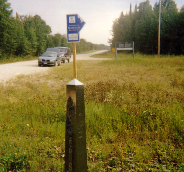 Angle Inlet MN Unmanned Border Crossing